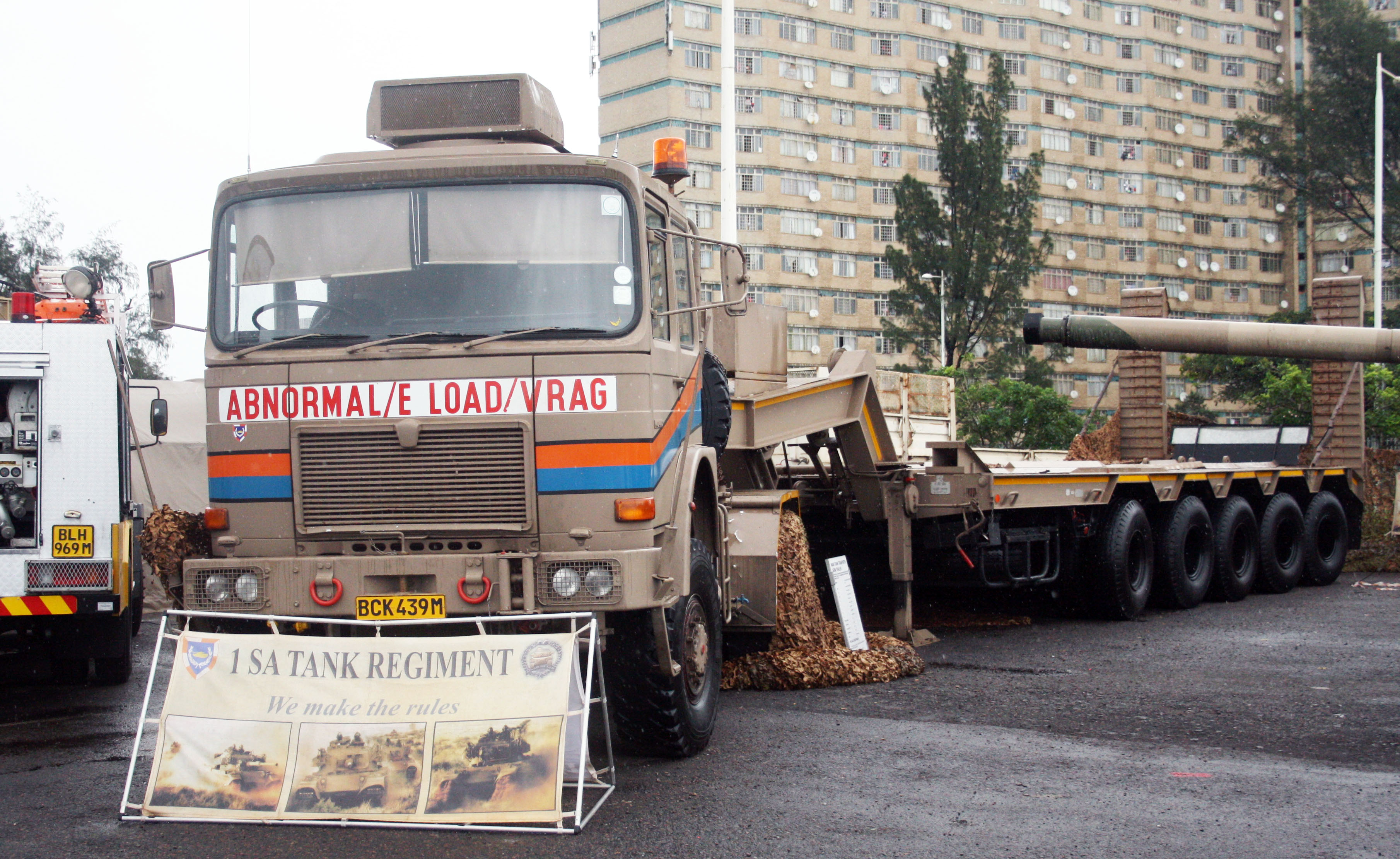 South African Army MAN 40-440 tank transporter